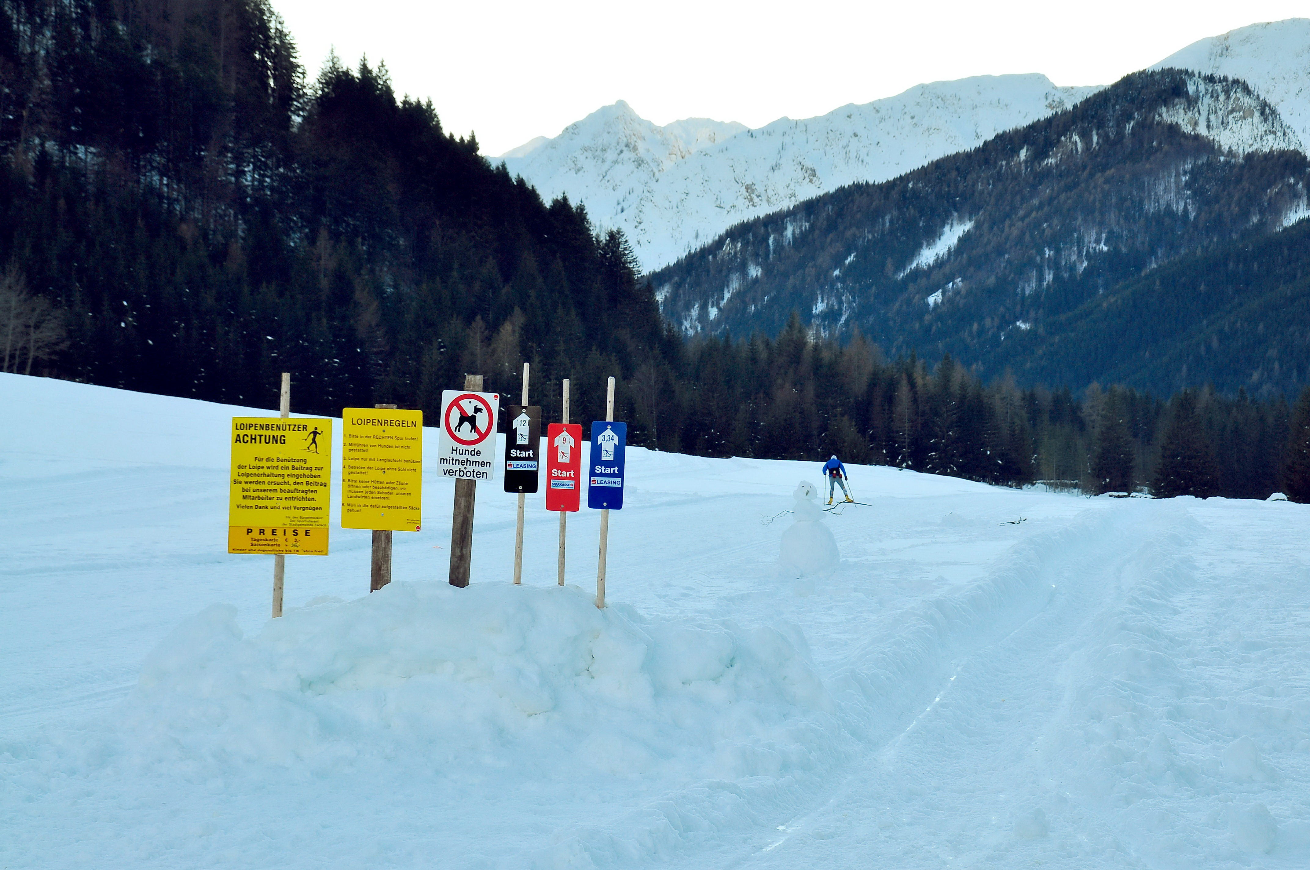 Cross-country ski run in the Bodental, municipality of Ferlach, Carinthia, Austria